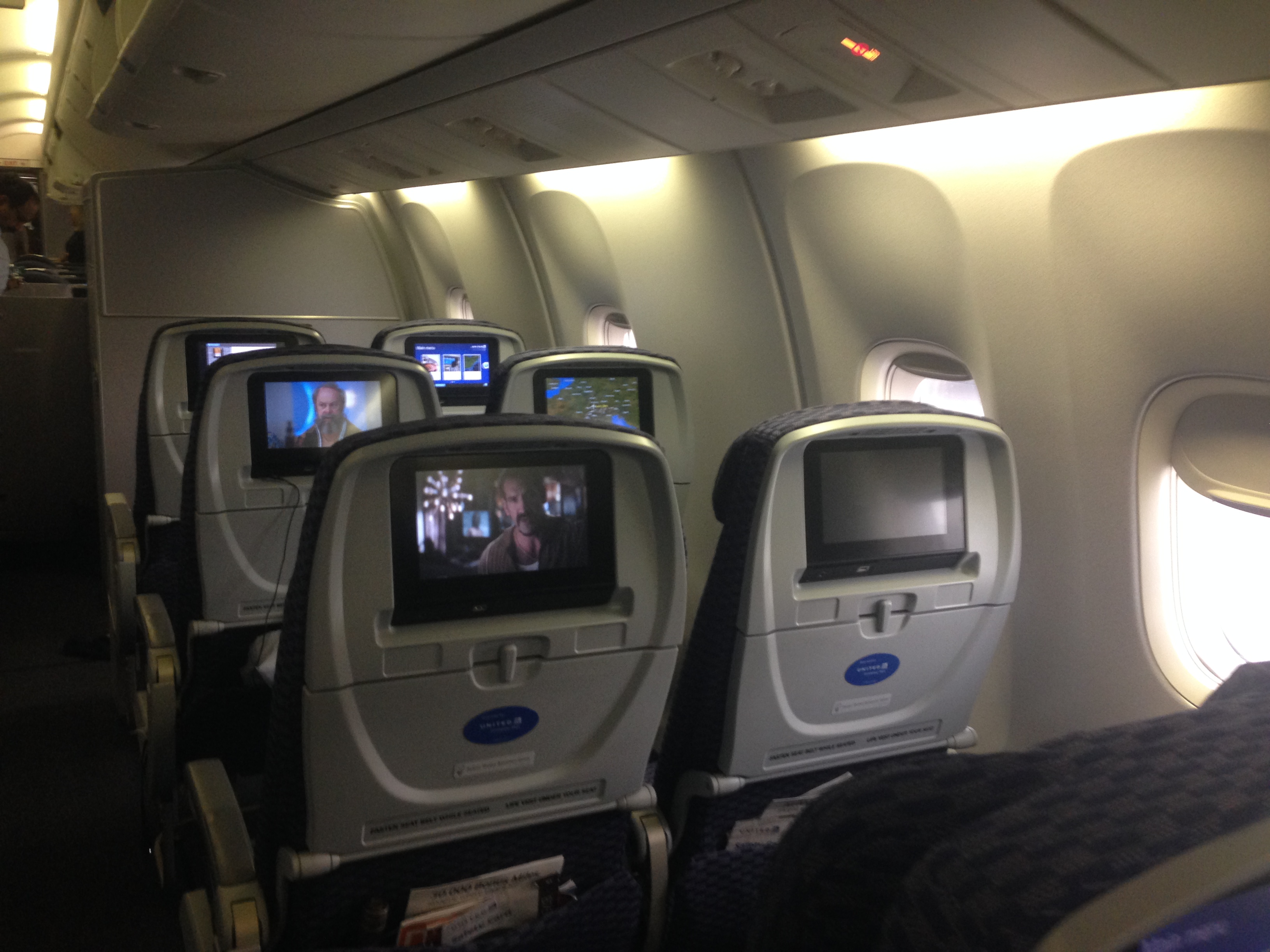 First few Economy Plus rows.